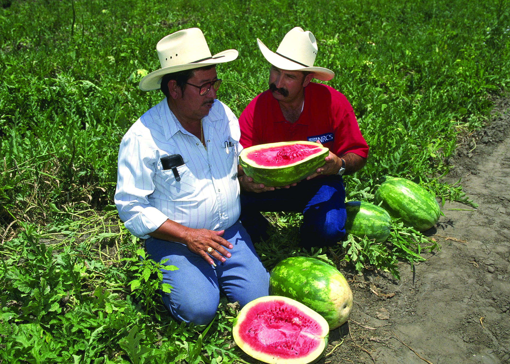 Osvaldo Longoria (right), NRCS District Conservationist, discusses conservation needs with landowner from Raymondville, TX, concerning his watermelon fields. [Slide 97CS3010.JPG]